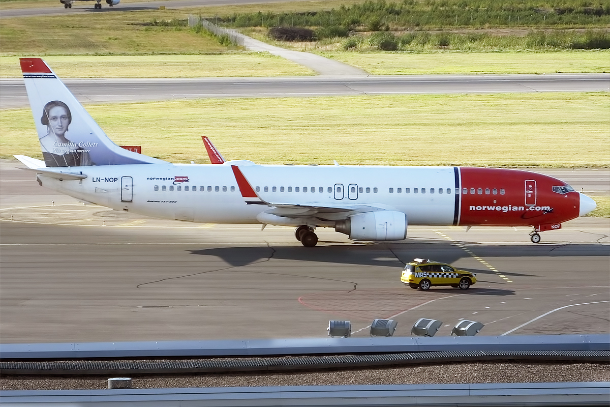 Norwegian (Camilla Collett livery), LN-NOP, Boeing 737-86N